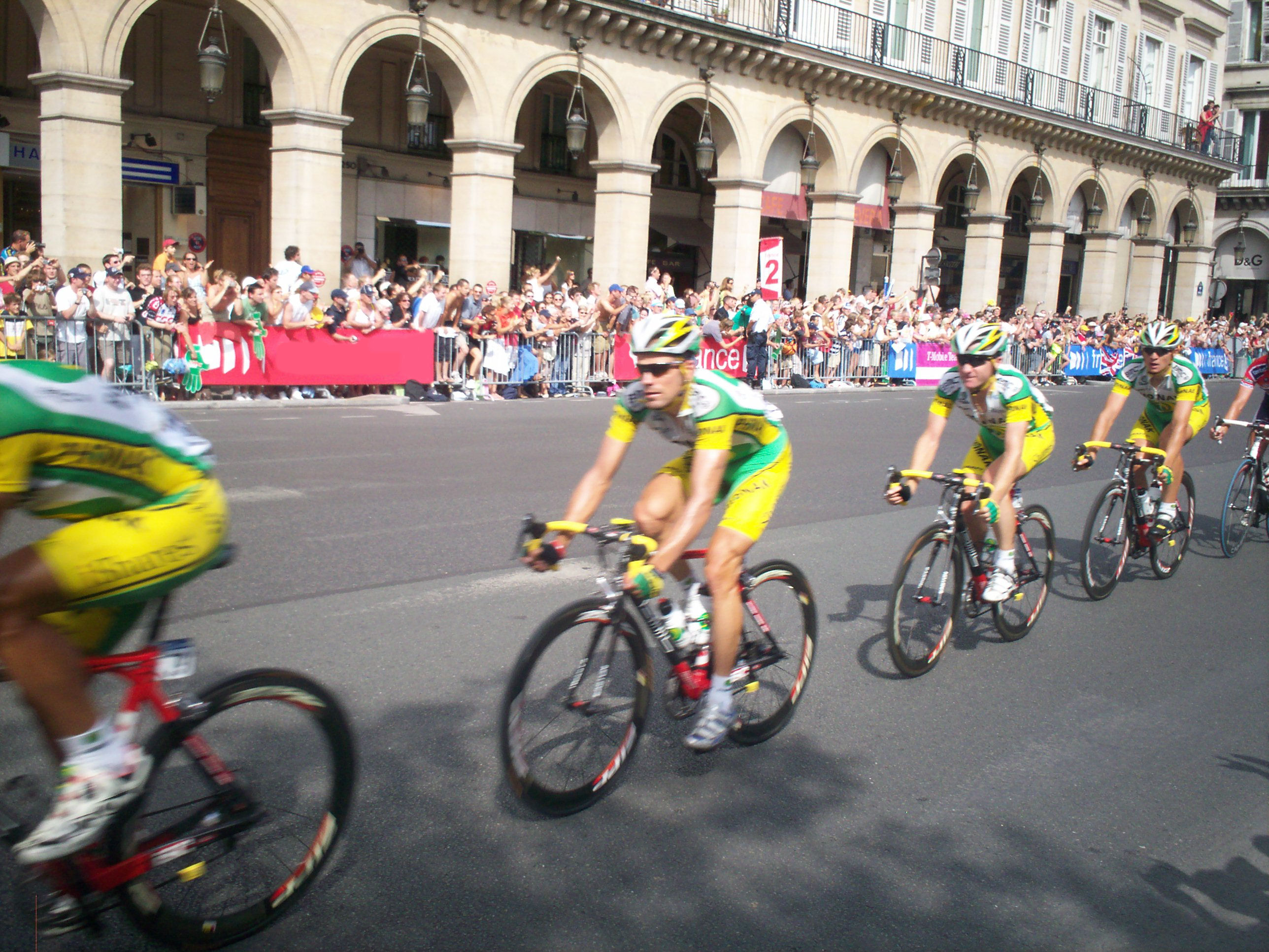 Team Phonak on la Rue de Rivoli, in Paris, in the final stage of the 2006 Tour de France. Taken by myself July 23, 2006. Photo altered slightly to remove a too-prominent logo in the background (which might have queered the possibility of releasing this as PD).